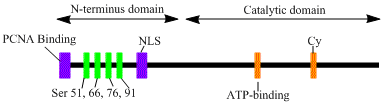 This shows a cartoon of the LIG1 gene referencing certain sites on the gene.